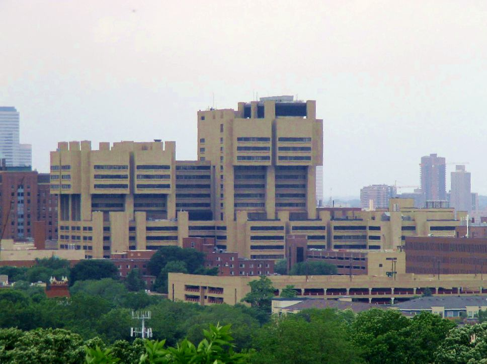 University of Minnesota Medical Center. Image has been cropped and modified.